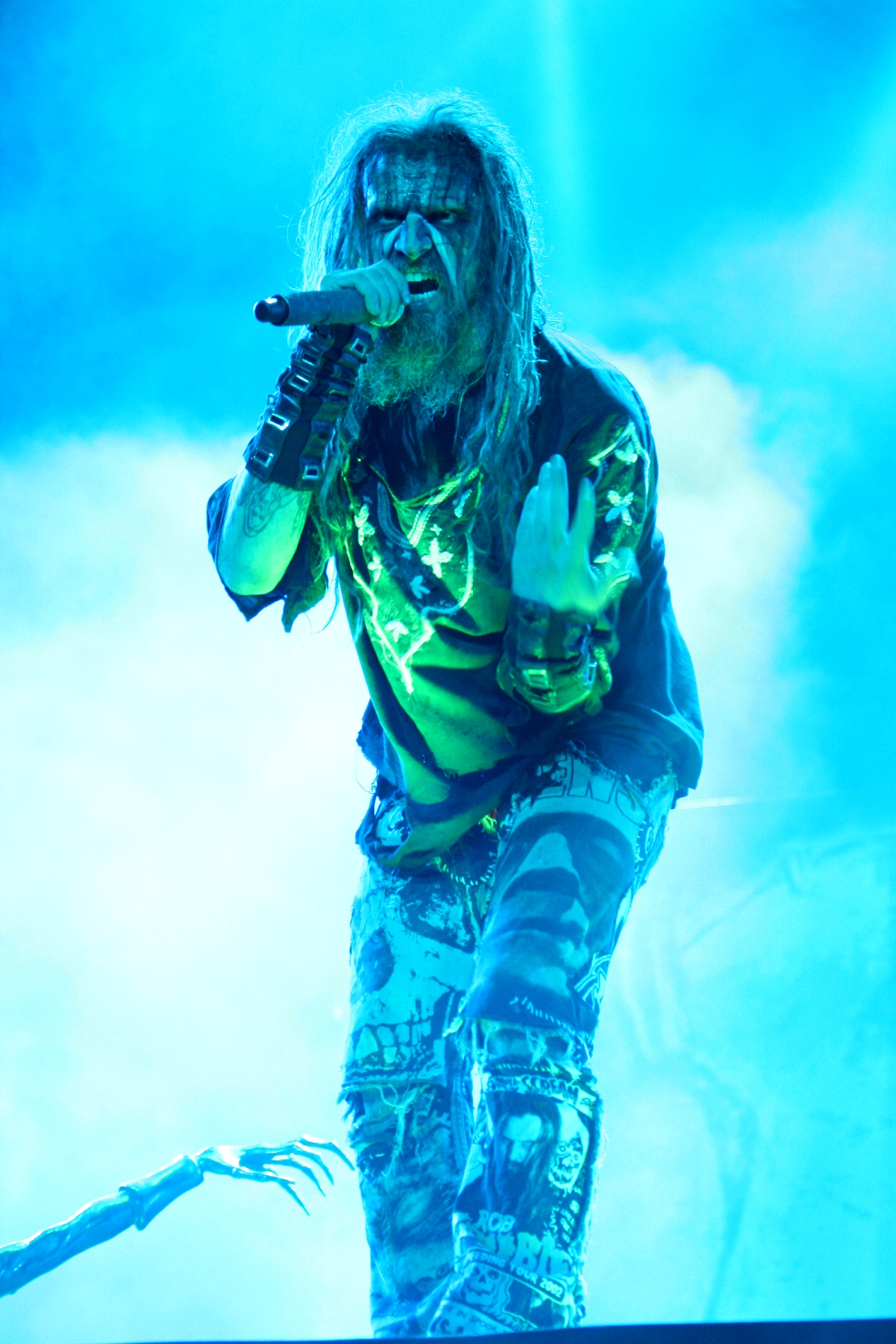 Rob Zombie, Rock im Park Festival 2014. Festivalsommer This photo was created with the support of donations to Wikimedia Deutschland in the context of the CPB project "Festival Summer".